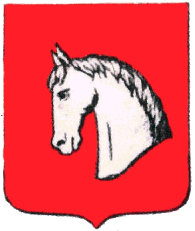 Coat_of_arms_of_Iasi_County%2C_Bessarabia_Guberniya.png (1826 - 1917)